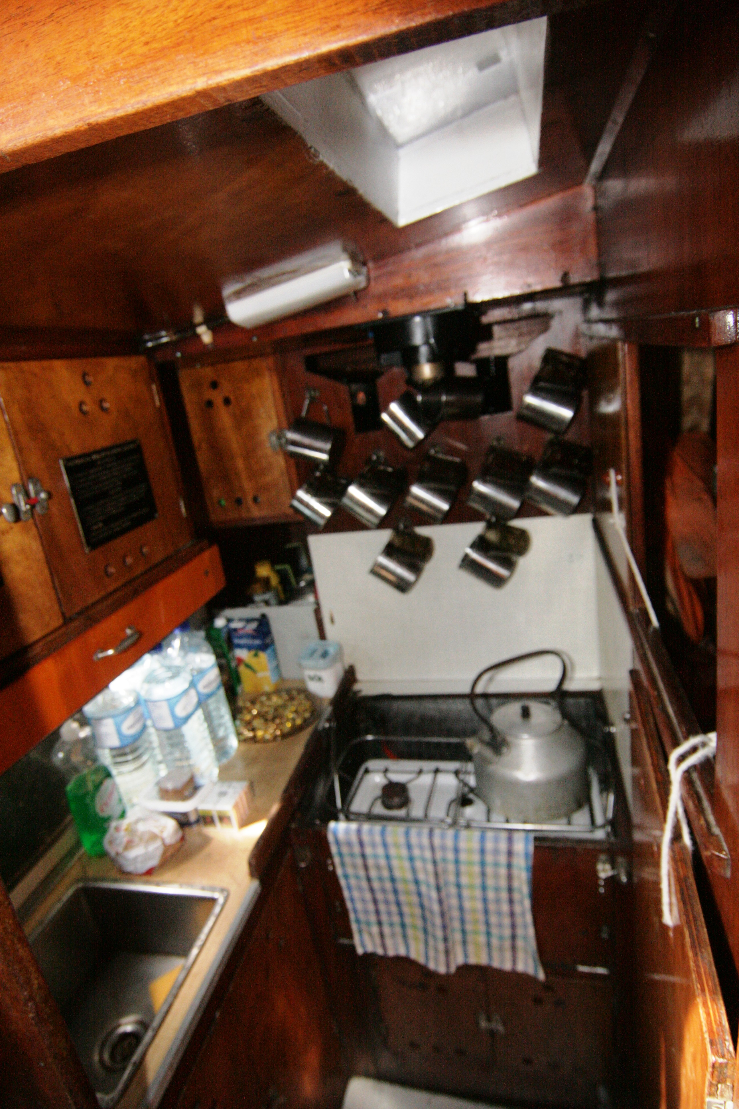 SY Bies galley